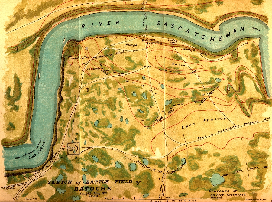 Sketch map of the battlefield of Batoche, Saskatchewan in 1885 (North-West Rebellion)